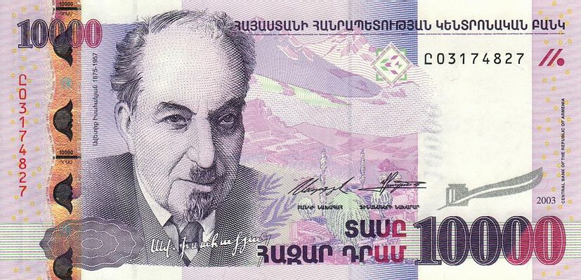 10000 dram 2003